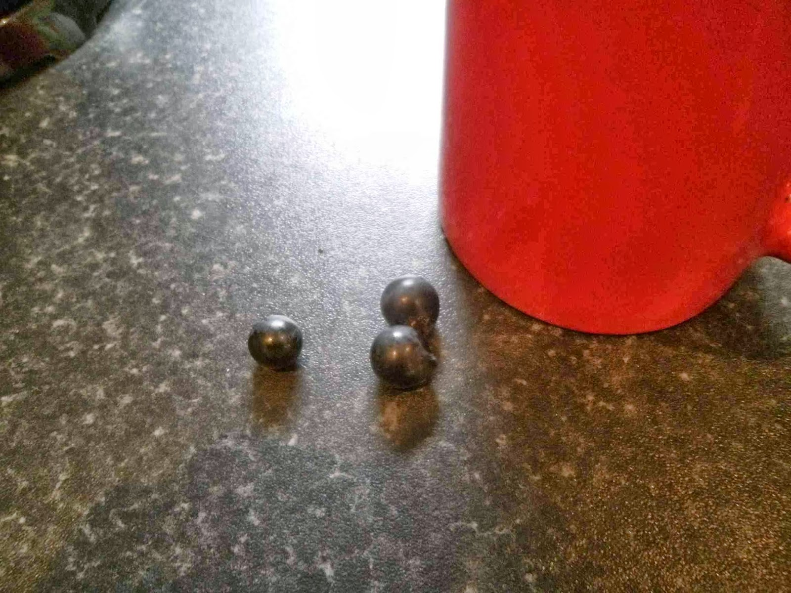 Vitis coignetiae (Japanese grape) berries.